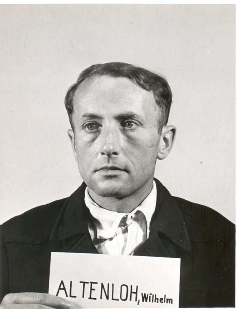 Wilhelm Altenloh (1908-?) at the Nuremberg Trials. Altenloh was a member of the SS and RSHA. From 1941 – 1943 he was commander of the Sicherheitspolizei and SD (KdS) in occupied Bialystok. In 1967 he was found guilty to be an accessory to murder in at least 10.000 cases in front of a German court in Bielefeld. This photograph of Altenloh (probably as a witness) was taken by US Army photographers on behalf of the Office of the U.S. Chief of Counsel for the Prosecution of Axis Criminality (OUSCCPAC, May 1945 - Oct. 1946) or its successor organization, the Office of Chief of Counsel for War Crimes (OCCWC, Oct. 1946 - June 1949).